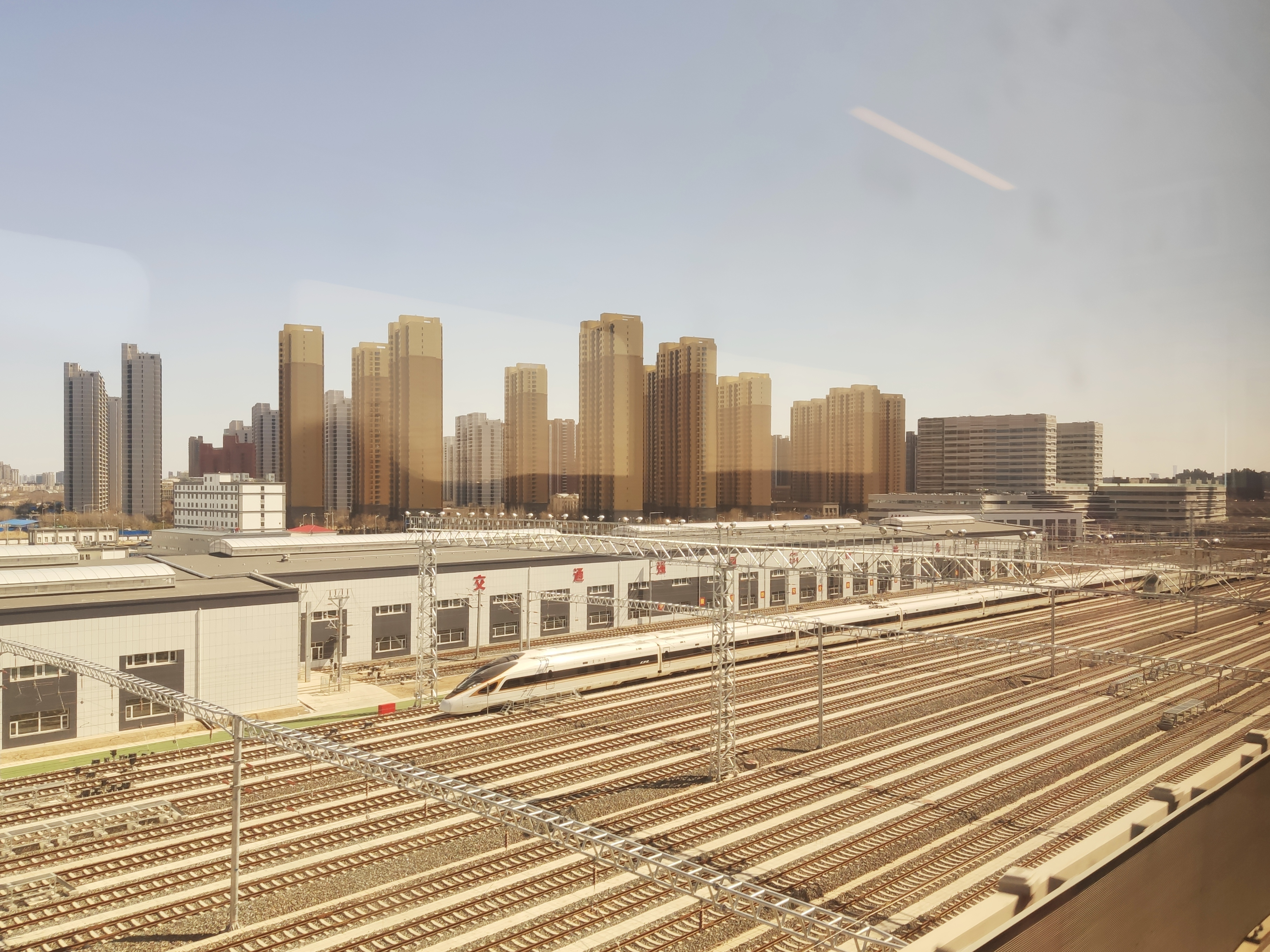 Beijingbei train depot photoed on the suburban train running on the Jingzhang HSR